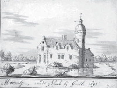 Castle Marvelt